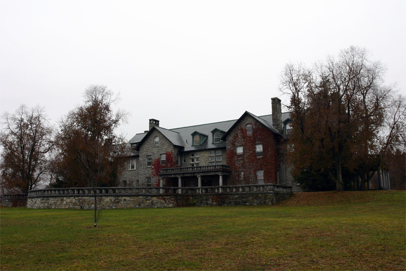 Photograph of Bennington College Jennings Music Building